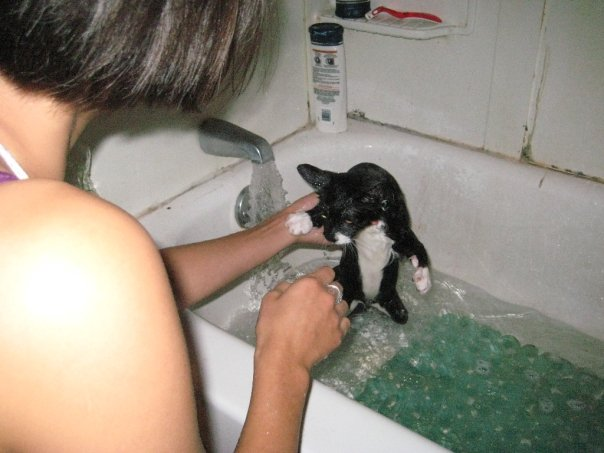 A woman giving a tuxedo cat a bath to remove fleas.